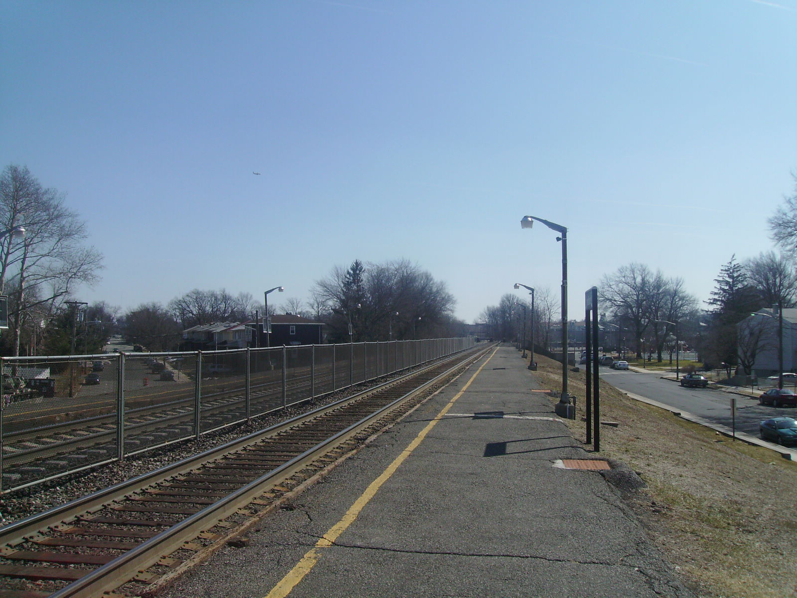 Lyndhurst Station facing southbound along the platforms towards Hoboken Station in Lyndhurst, New Jersey.